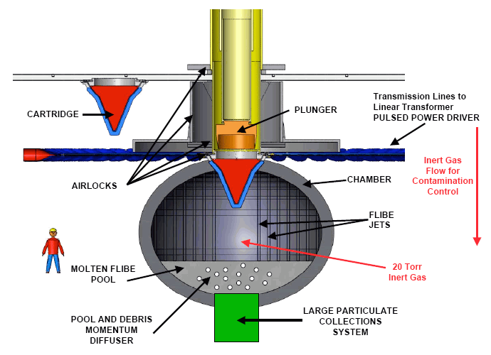 Z-IFE Power Plant